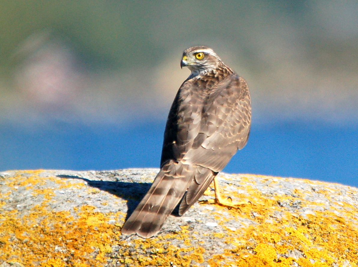 Sparrowhawk - Accipiter nisus, Mølen, Larvik, Norway